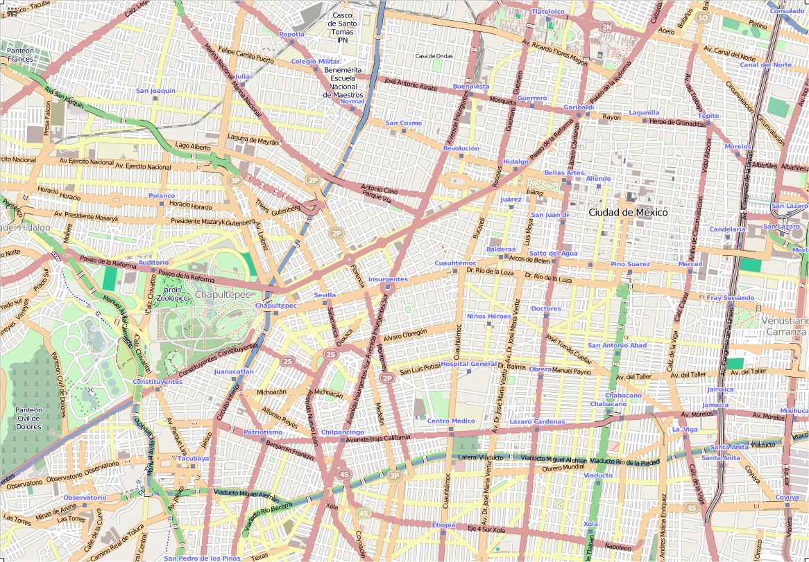 This map may be incomplete, and may contain errors. Don't rely solely on it for navigation. Border coordinates {19.4572 } {-99.2108 }←↕→ {-99.1108 } {19.3916 }